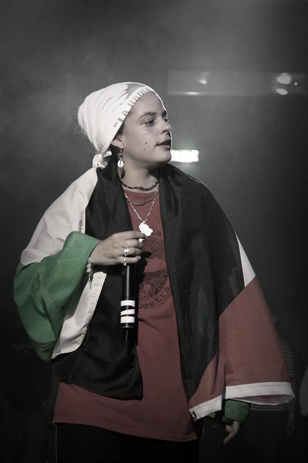 Keny Arkana live in the city of Hamburg, Germany